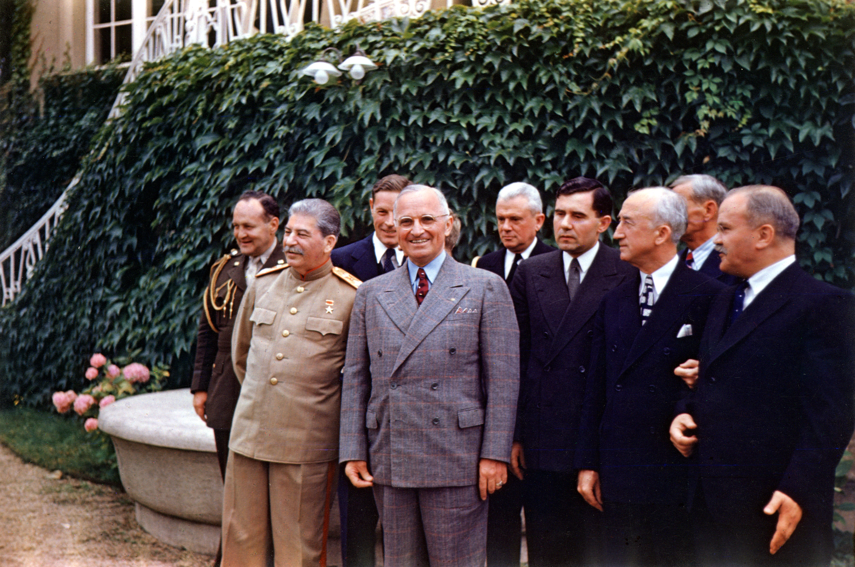 Harry S. Truman and Joseph Stalin meeting at Potsdam. From left to right, row 1 : Joseph Stalin, Harry S. Truman, Soviet Ambassador Andrei Gromyko, Secretary of State James Byrnes, and Soviet Foreign Minister Vyacheslav Molotov. Second row: General Harry Vaughan, interpreter Charles Bohlen, interpreter V. N. Pavlov (mostly obscured by Truman), Captain James K. Vardaman, and Charles Ross (partially obscured).